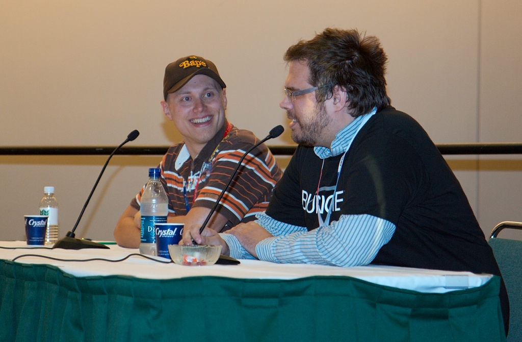 Shane Bettenhausen and Luke Smith at the 1up Yours live panel